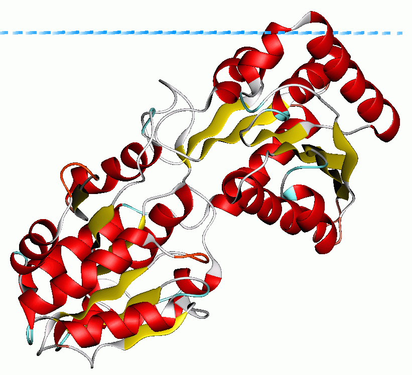 Protein image from OPM database